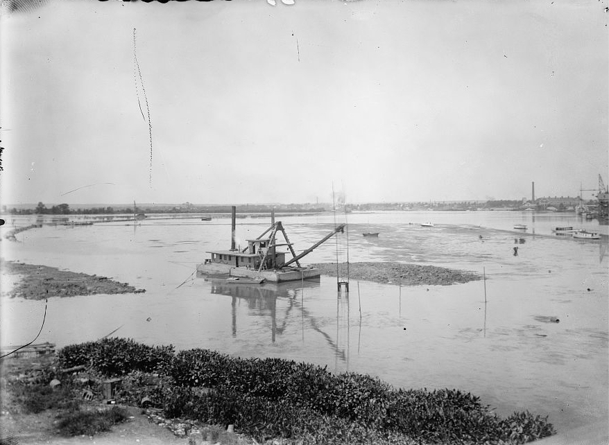 Dredging ship is dredging the Anacostia River in Washington, D.C., in the United States on July 20, 1912. The "Anacostia flats," a series of tidal marshes lining the east and west banks of the river, can also be seen.